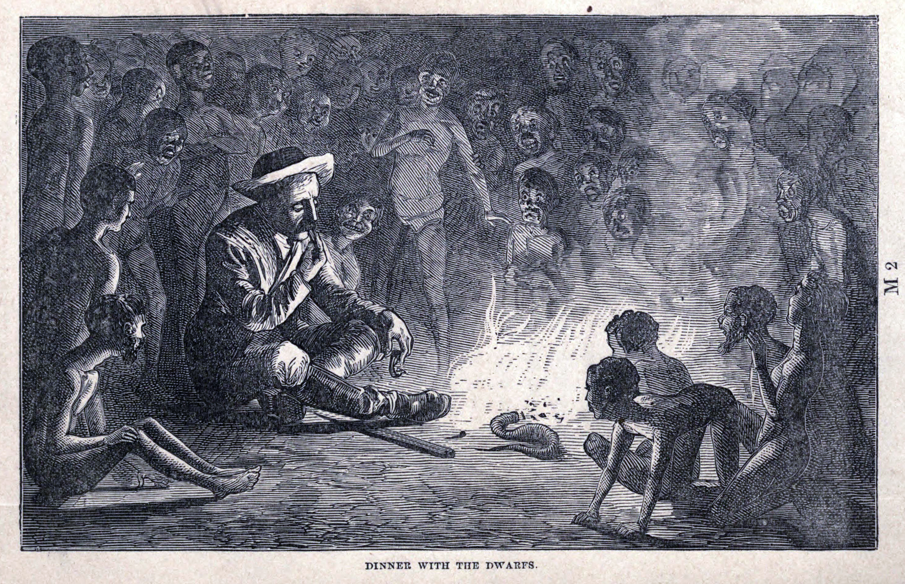 Illustration from The Country of the Dwarfs